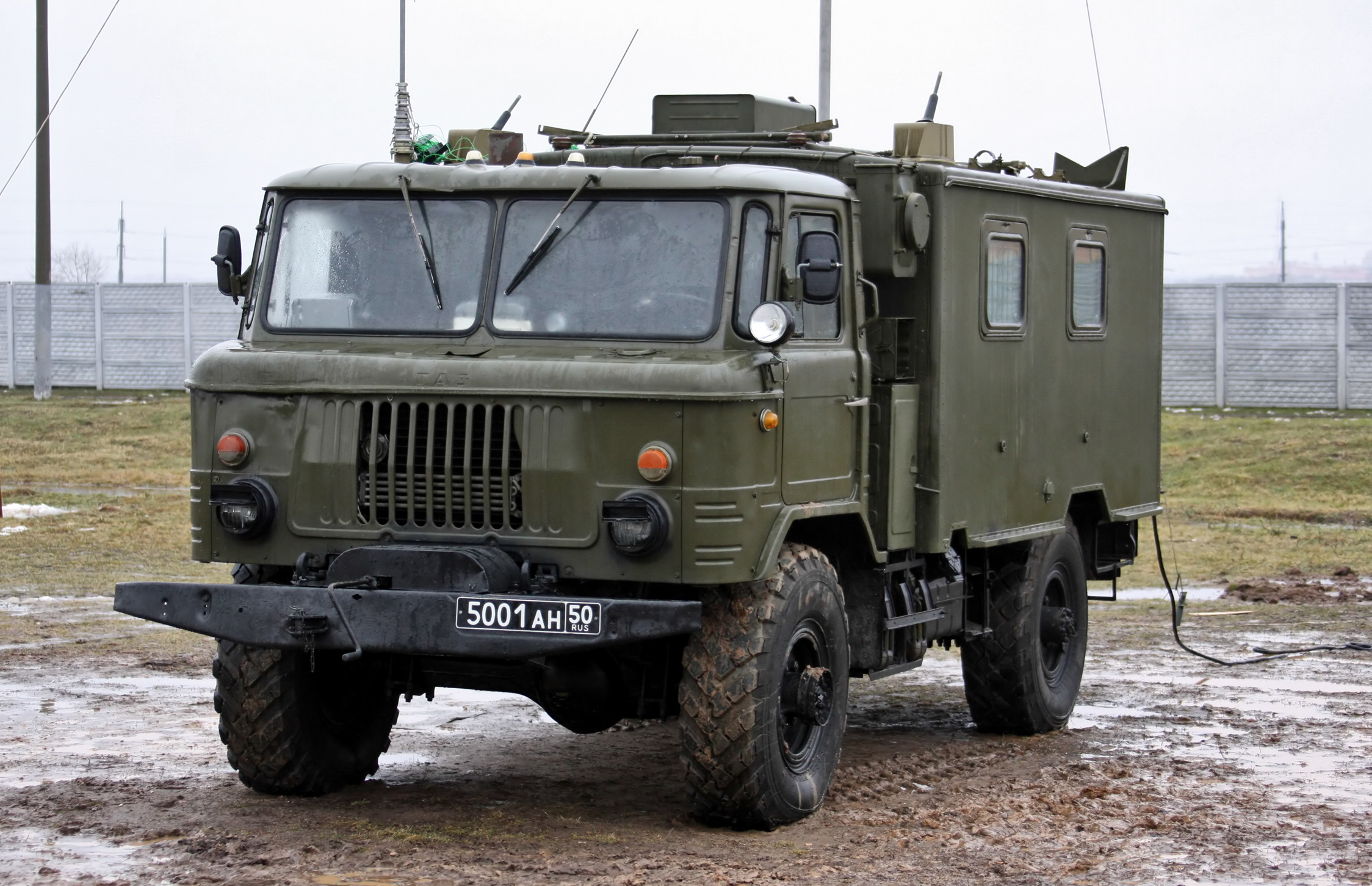 R-142N command vehicle of 4th Guards Kantemirovskaya Tank Division